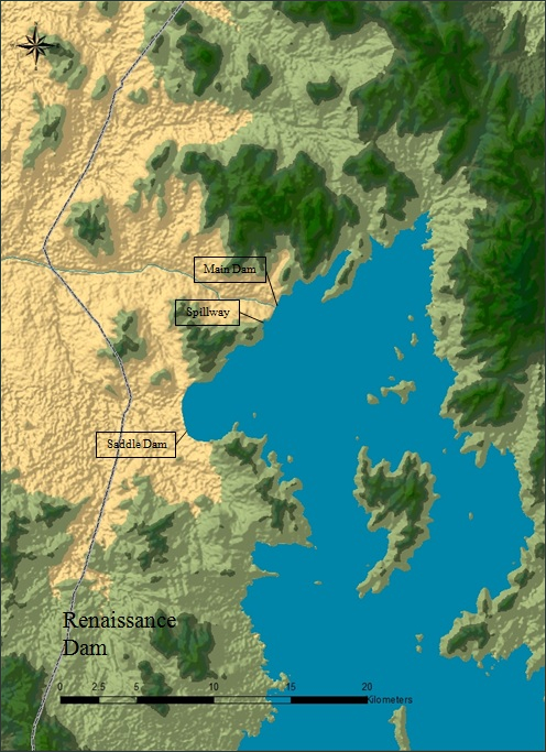 Layout of Renaissance Dam